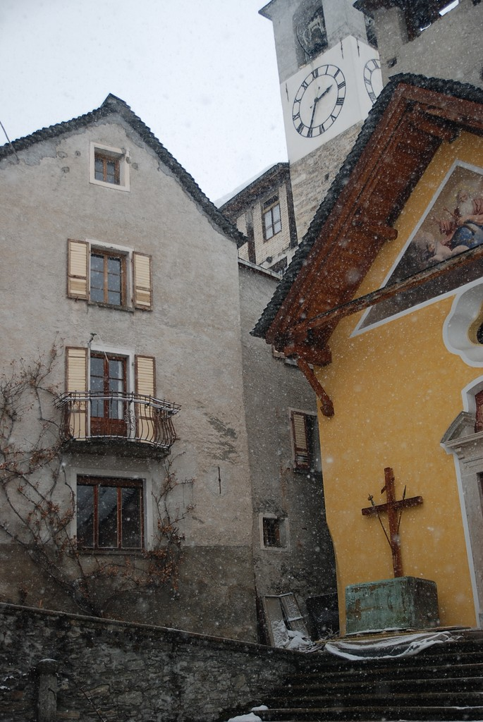 Fusio, Ticino, Switzerland